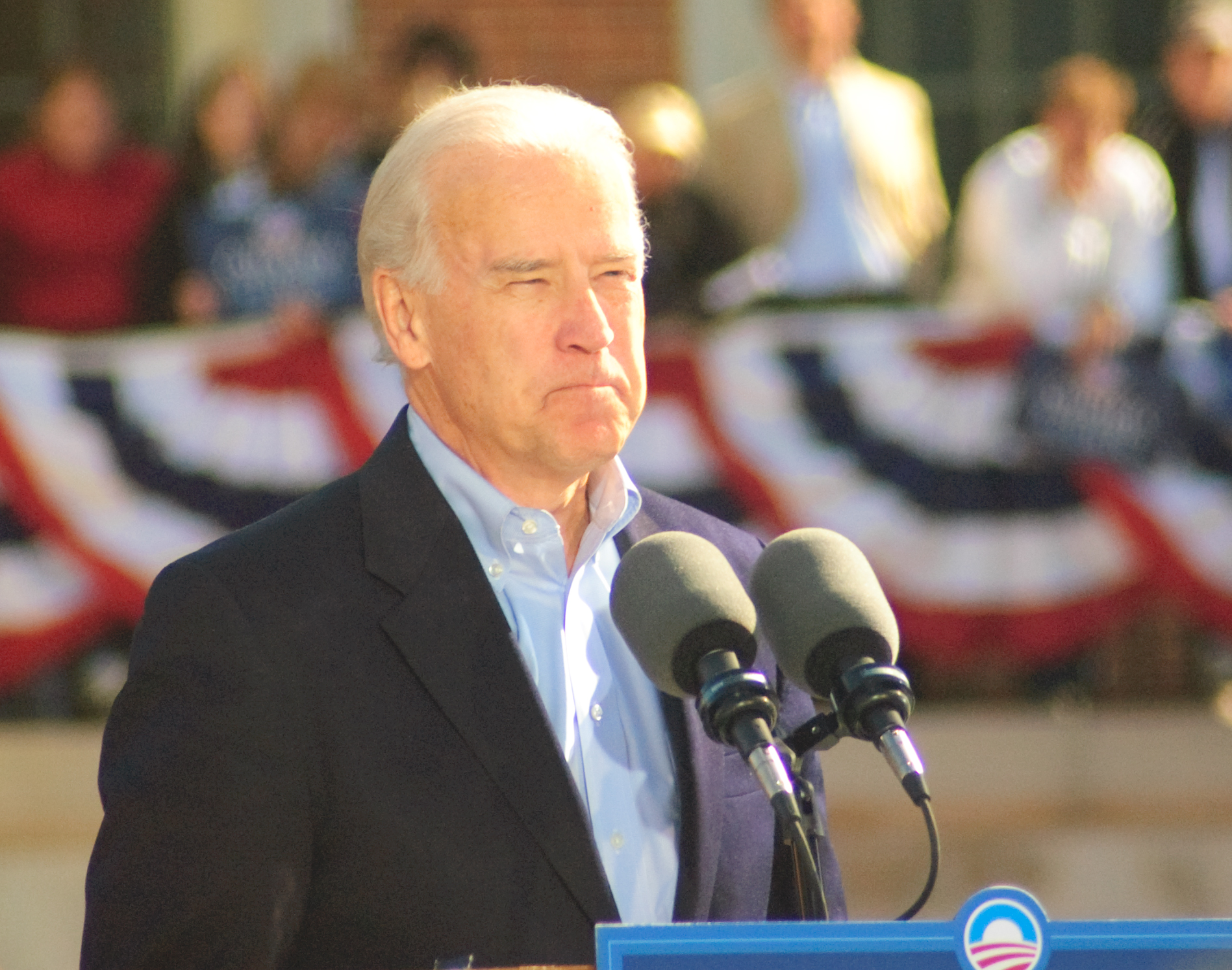 Joe Biden speaks to a crowd at Wake Forest University.